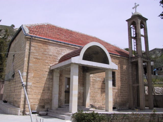 St Elias Church in Niha, Bekaa